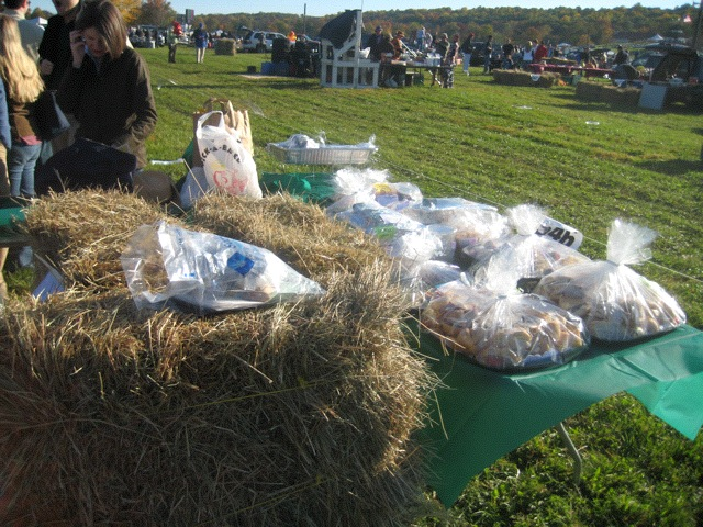 PHotograph of the far hills race meeting in far hills new jersey, october 2008